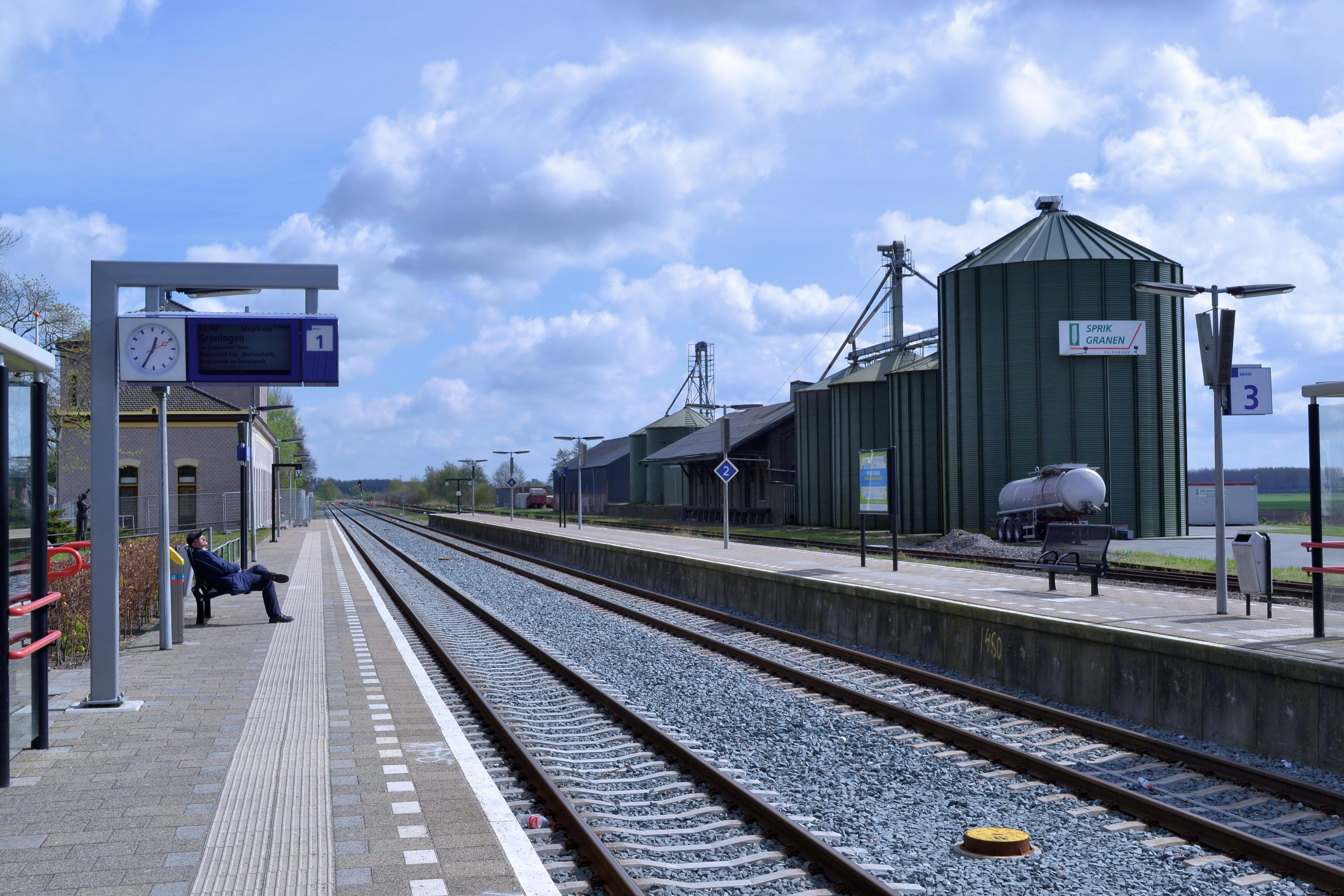 Overview of the three platforms of the Zuidbroek railway station.